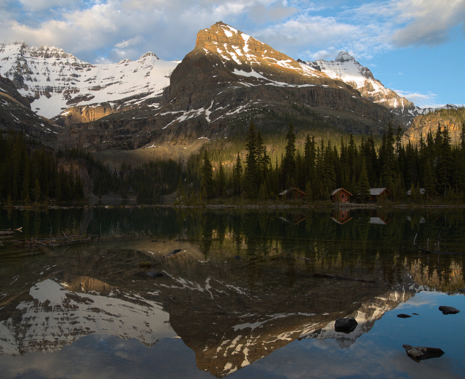 Yukness Mountain reflected in Lake O'Hara. Yoho National Park,Canada